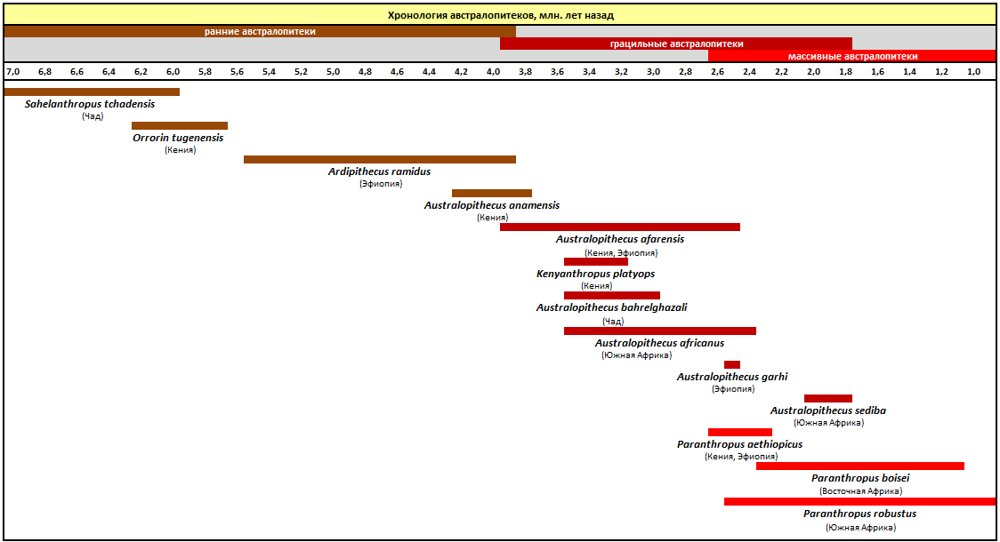 Australopithecinae chronology